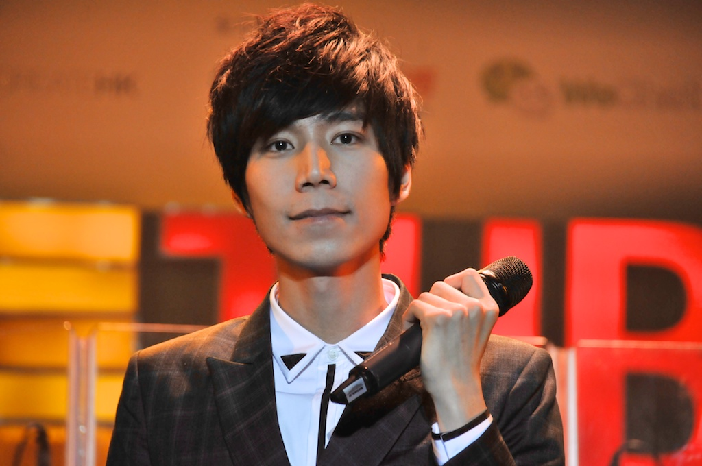 20130329 Hong Kong LiveTube